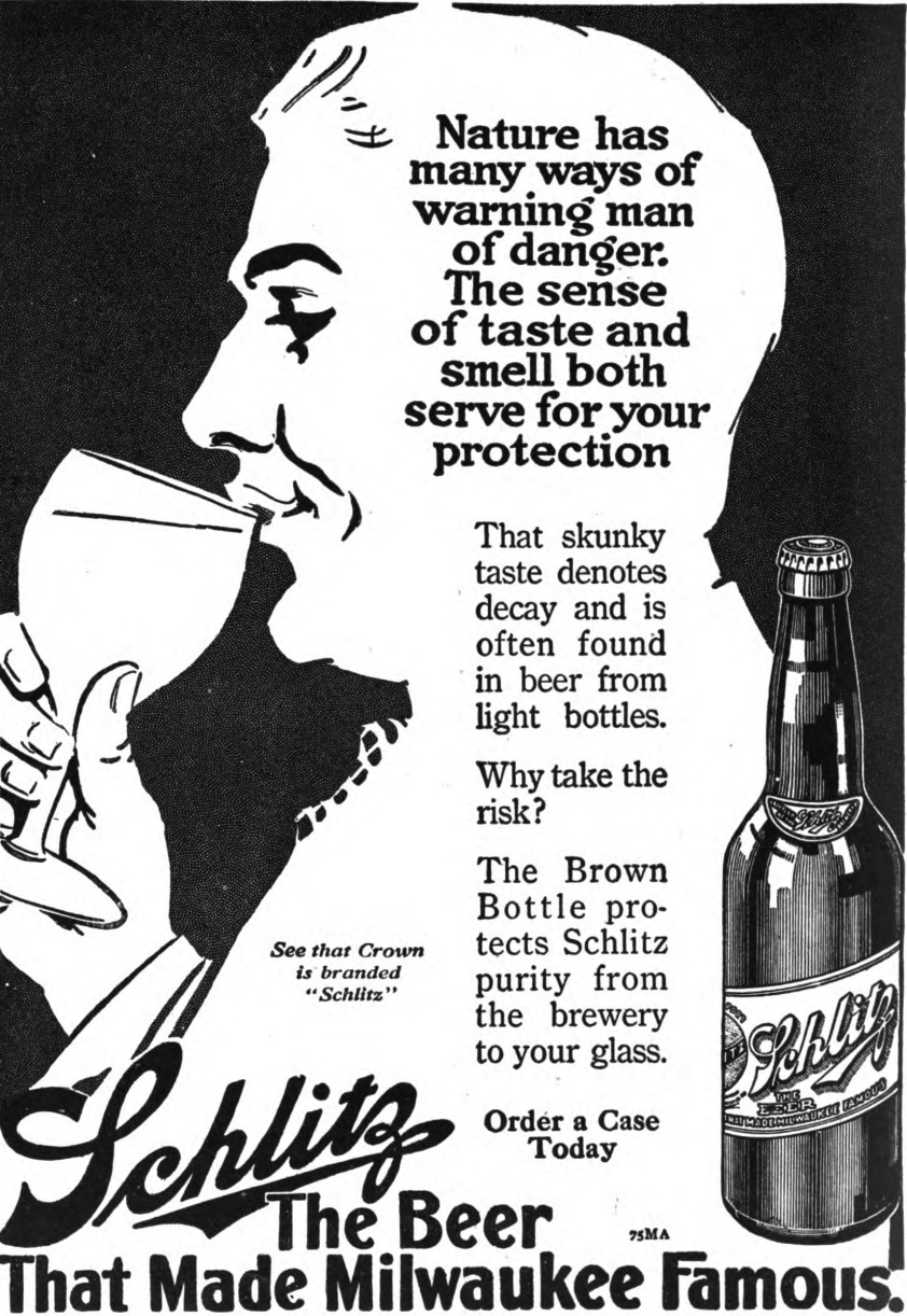 Schlitz Advertisement (Judge, 31 Oct 1914)